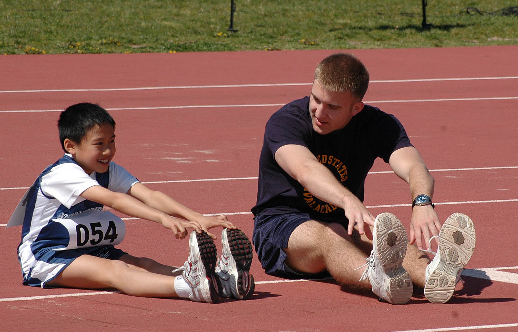 ANNAPOLIS, Md. (April 22, 2007) - Midshipman 3rd Class Nicholas Lowe shows Julian Than how to stretch before running in the Special Olympics at the Naval Academy. More than 300 Midshipmen, active duty service members, and Annapolis-area high school students volunteered as event staff and athlete escorts for the event, which drew 175 athletes from three Maryland counties. U.S. Navy photo by Mass Communication Specialist Seaman Apprentice Matthew A. Ebarb (RELEASED)